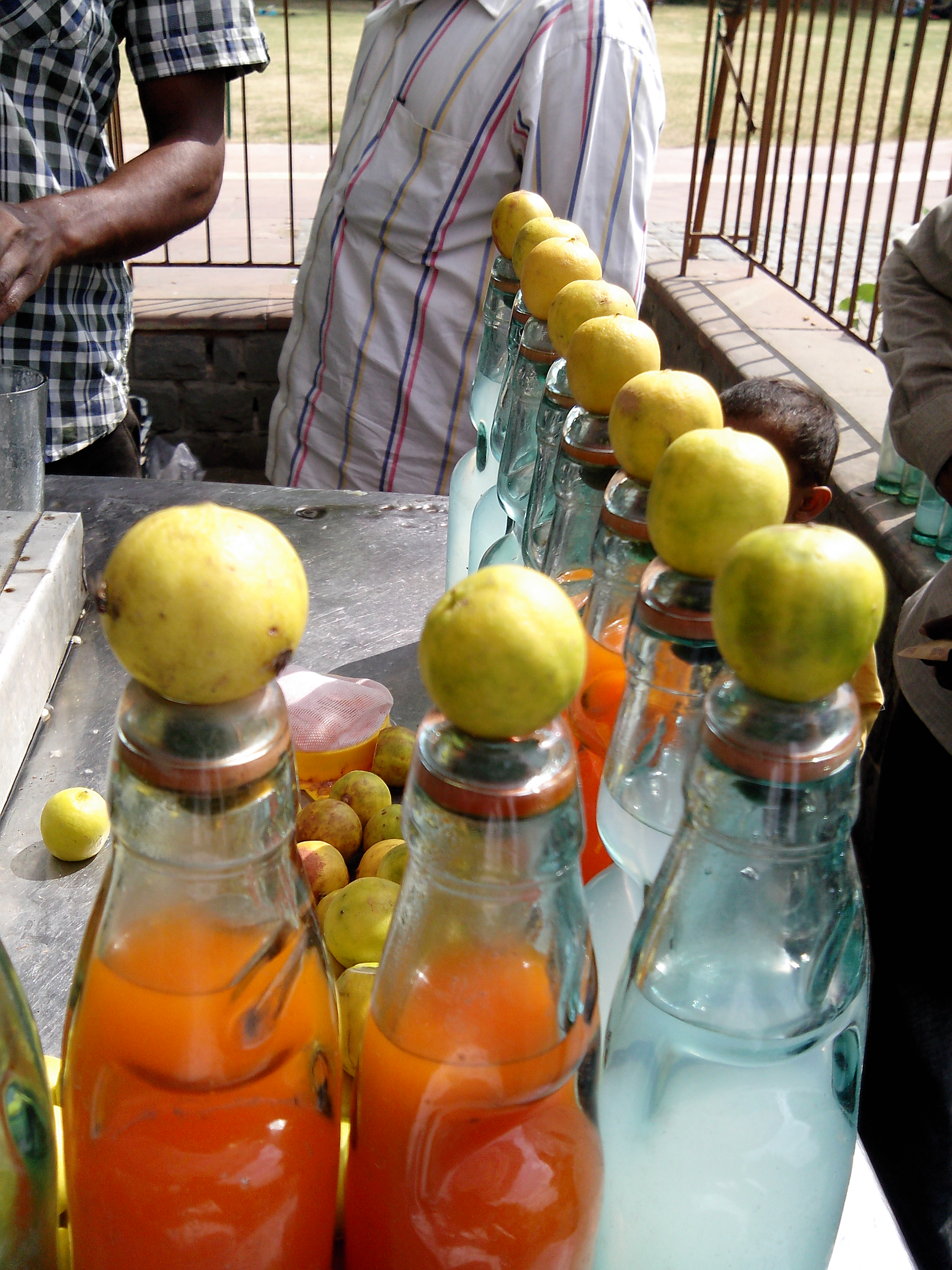 Lime Soda making